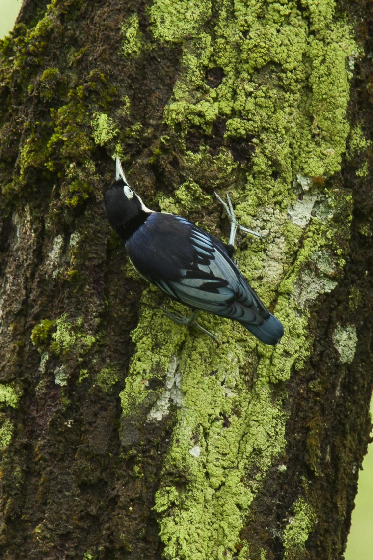 Blue Nuthatch - Fraser's Hills - Malaysia_MG_6508